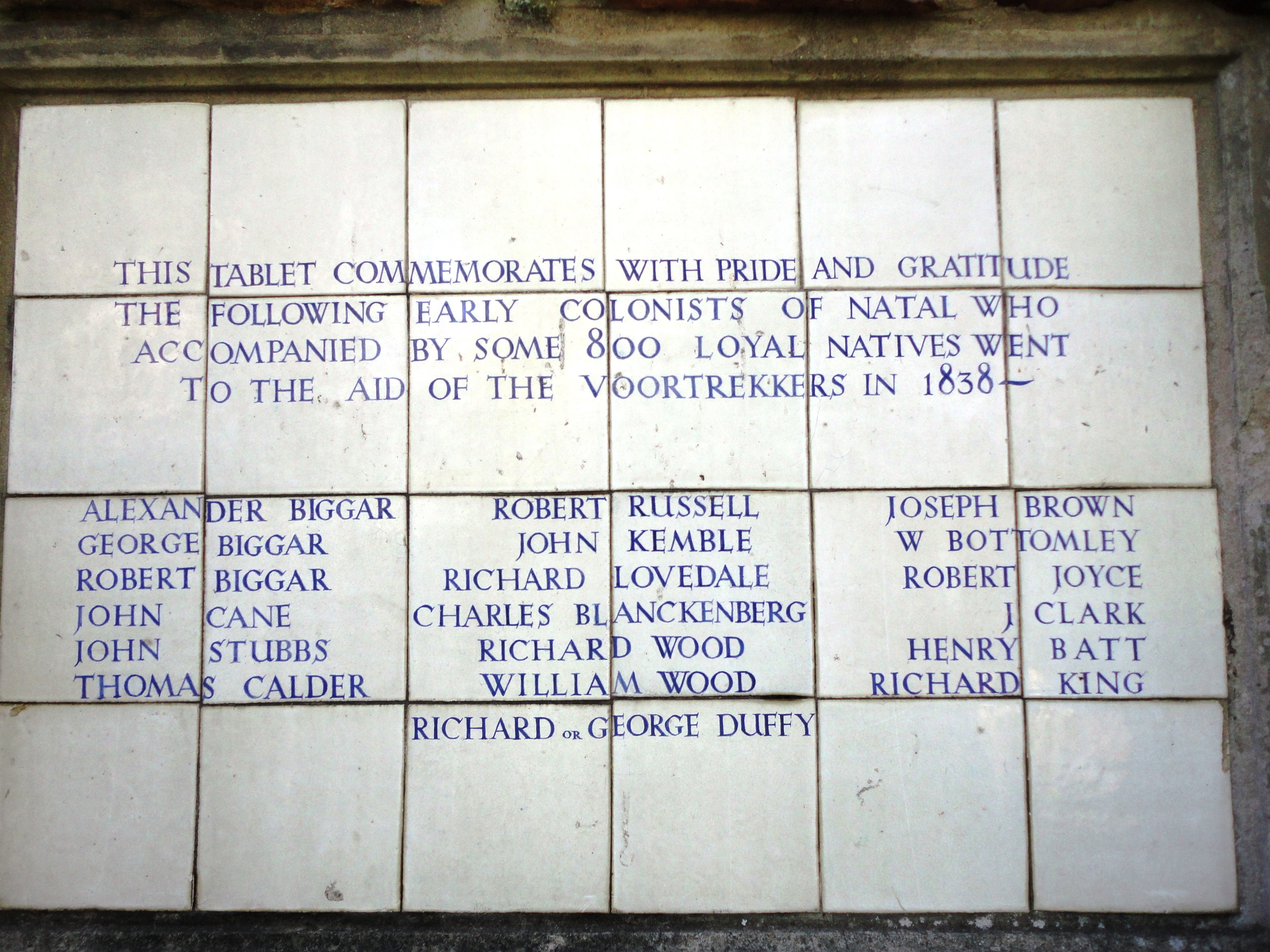 A memorial plaque to the Biggar expeditions of 1838, Old Fort, Durban Alexander BIGGAR (slain at Opathe gorge), George BIGGAR (slain at Blaauwkrantz), Robert BIGGAR (slain at Tugela river), John CANE (slain at Tugela), John STUBBS (slain at Tugela), Thomas CALDER (slain at Tugela), Robert RUSSELL (slain at Tugela), John KEMBLE (slain at Tugela), Richard LOVEDAY (slain at Tugela), Charles BLANCKENBERG (slain at Tugela), Richard WOOD (slain at Tugela?), William WOOD (survived), Richard or George DUFFY (survived), Joseph BROWN (wounded but survived), Robert JOYCE (survived, 'went native'), Henry BATT (slain at Tugela), Richard KING (survived), W. BOTTOMLEY (slain at Tugela) and J. CLARK (slain at Tugela).